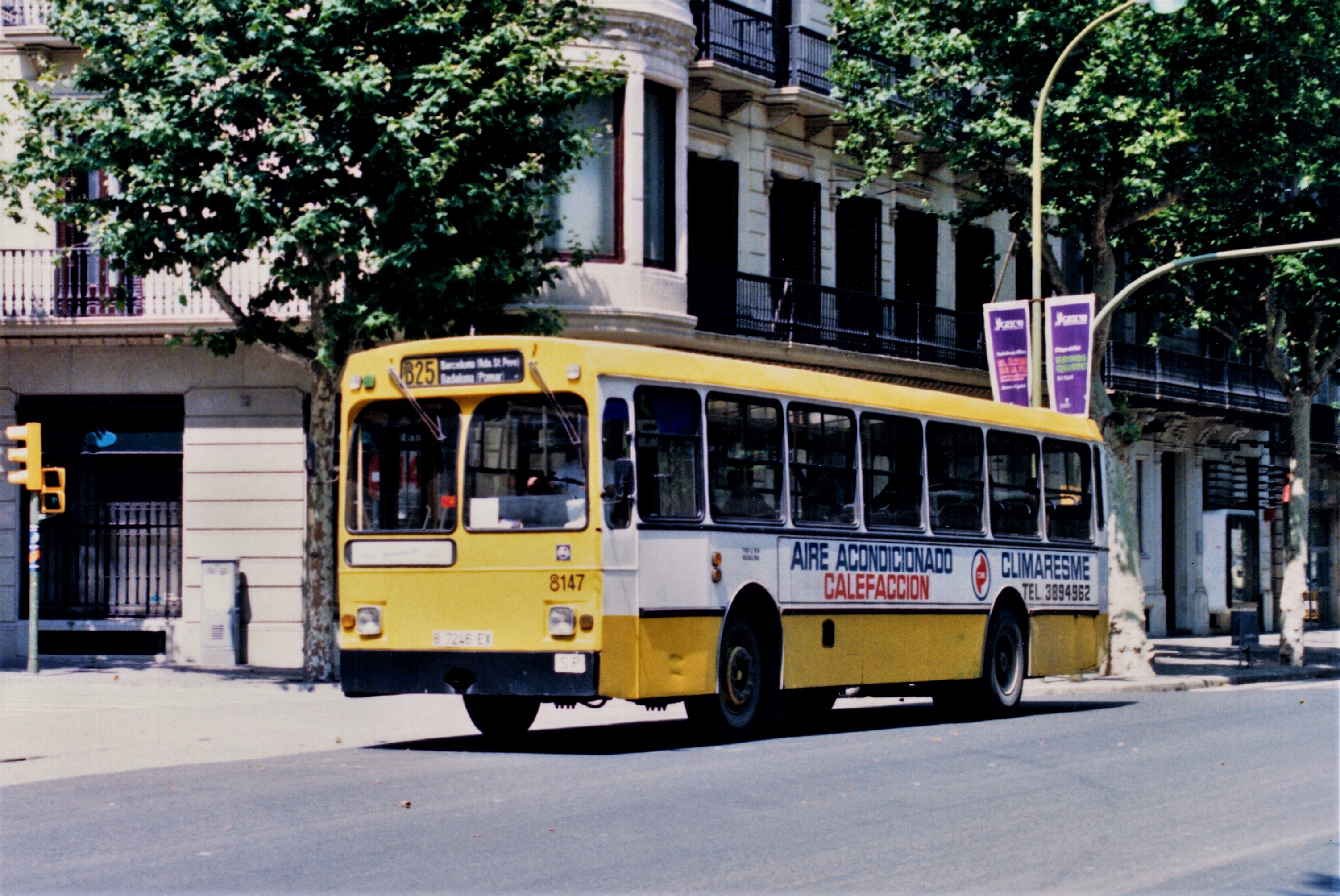 TUBSAL bus number 8147, a Pegaso 6050, on the Ronda de Sant Pere in Barcelona, serving the suburban line B25 from Badalona (Pomar).